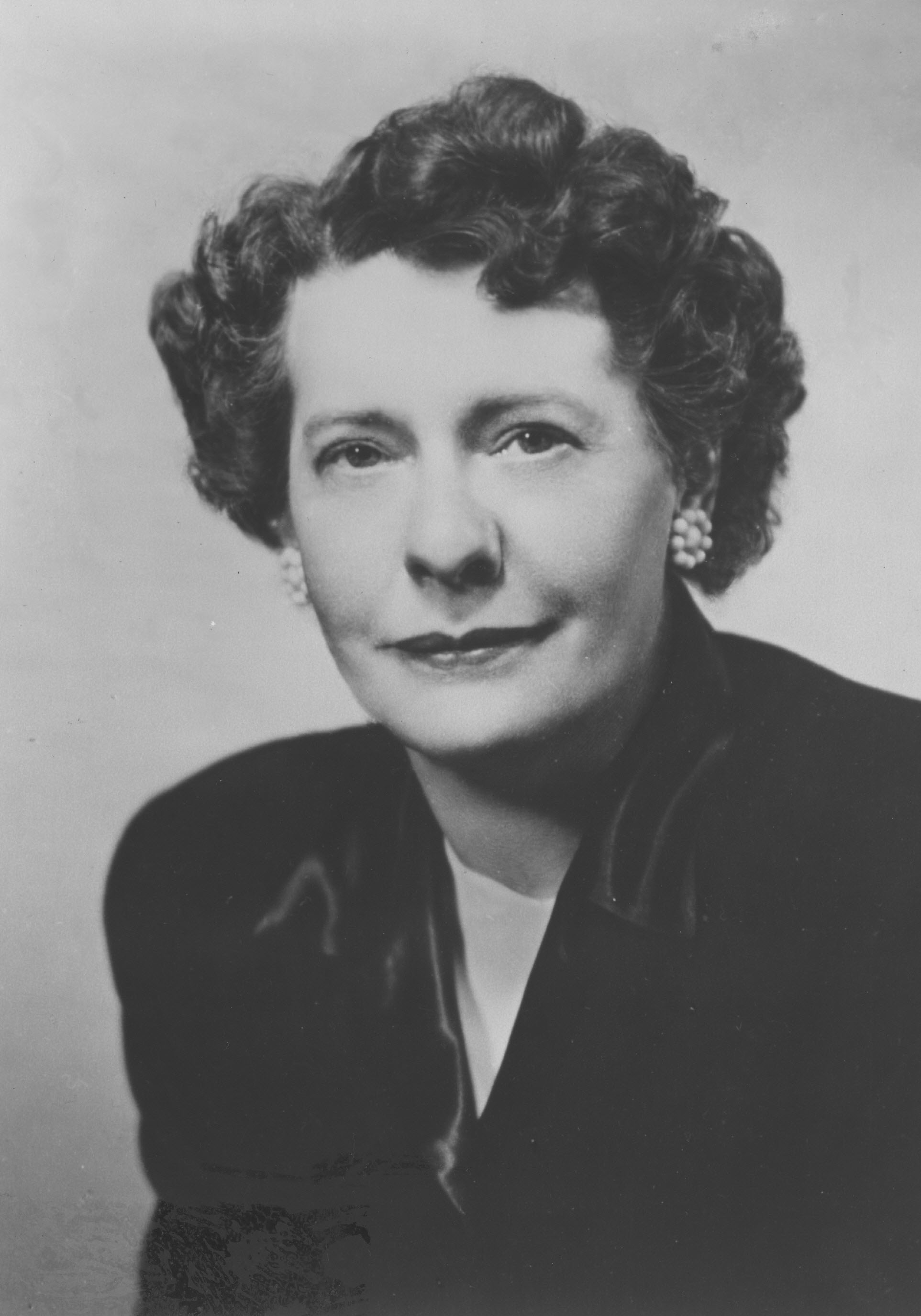 Congresswoman Florence P. Dwyer of New Jersey